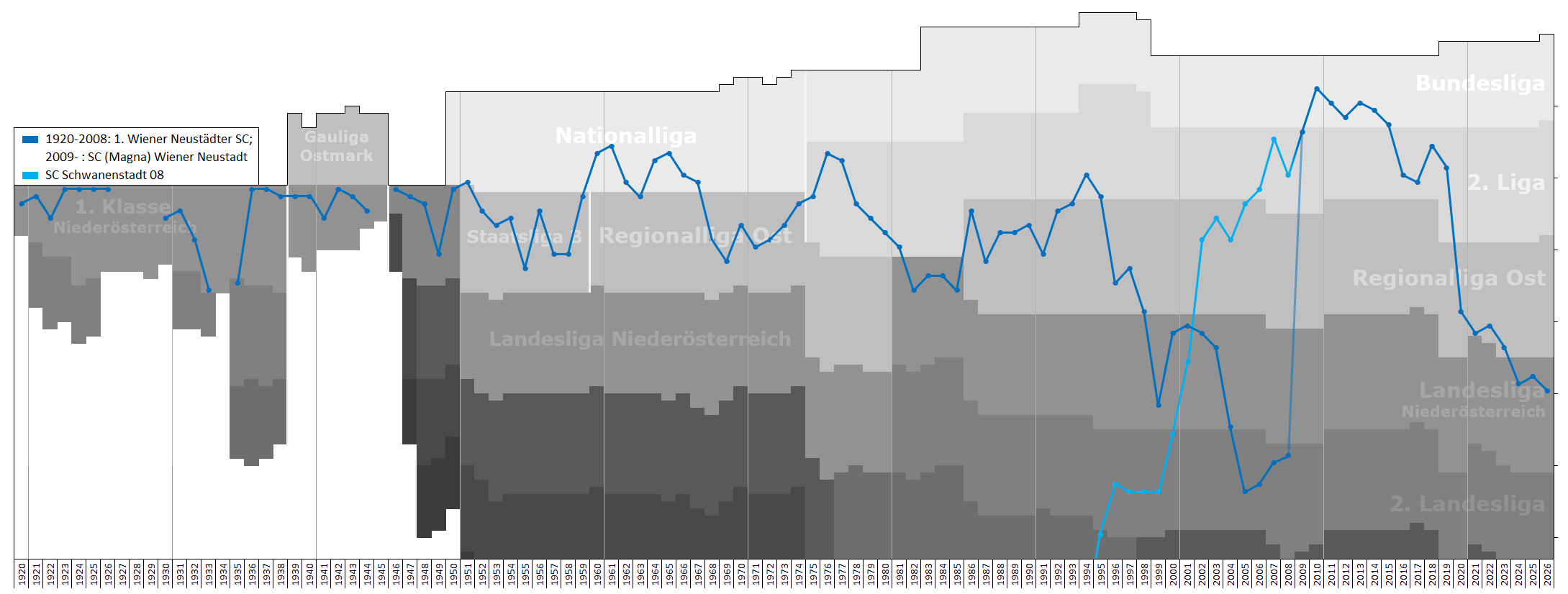 Chart of end-season table positions of Wiener Neustadt in the Austrian football league system. Data source: RSSSF, , regiowiki.at, wfv.at, wikipedia